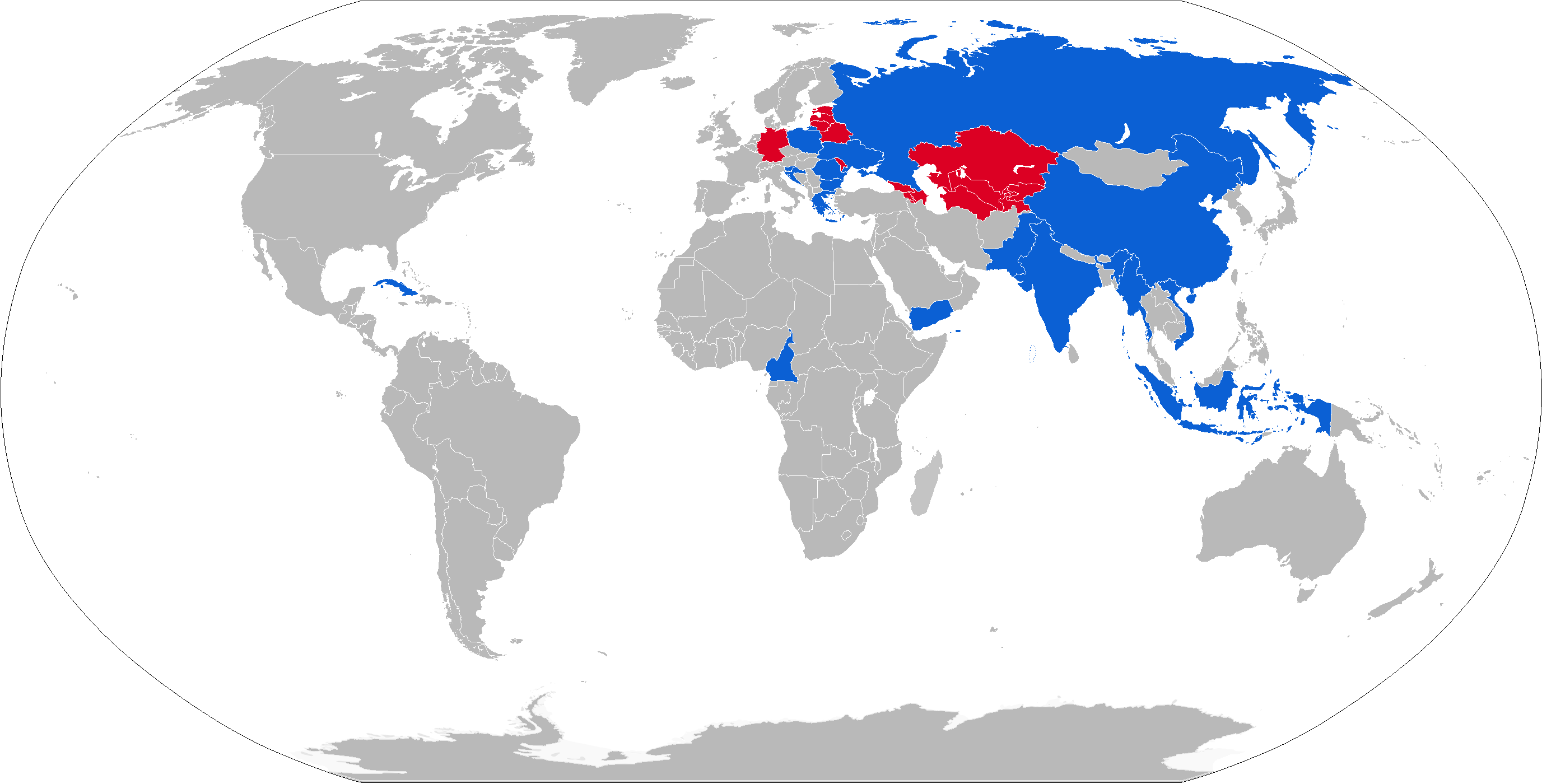 Map of AK-630 operators in blue with former operators in red